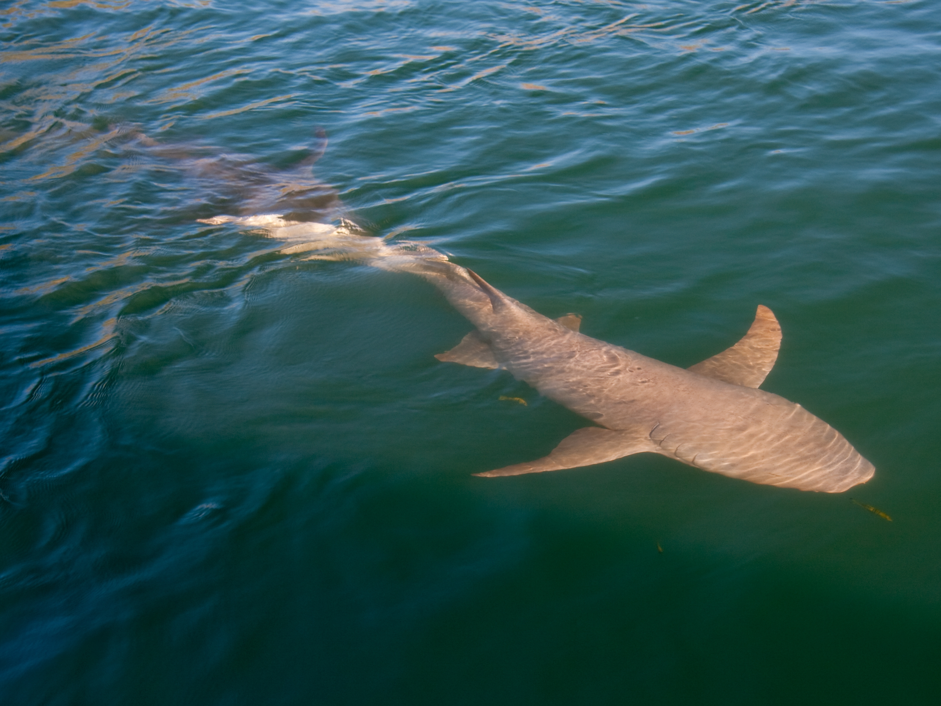 Tawny nurse shark (Nebrius ferrugineus) off Broome, Western Australia.